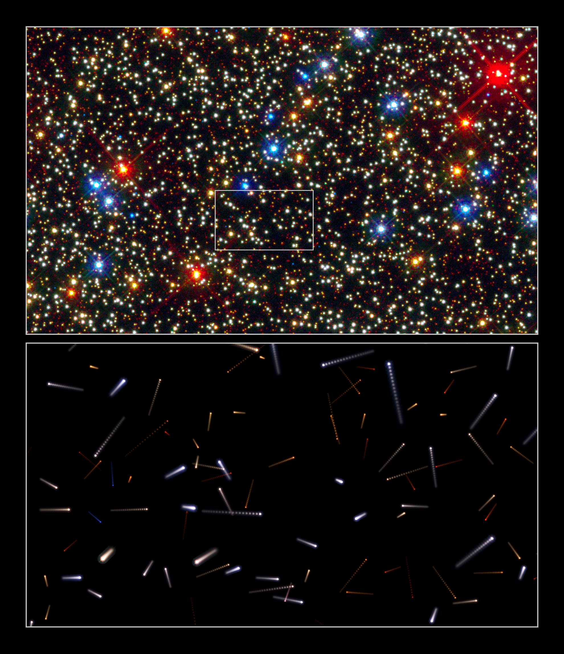 The multi-colour snapshot (top), taken with the Wide Field Camera 3 aboard the NASA/ESA Hubble Space Telescope, captures the central region of the giant globular cluster Omega Centauri. All the stars in the image are moving in random directions, like a swarm of bees. Astronomers used Hubble’s exquisite resolving power to measure positions for stars in 2002 and 2006. From these measurements, they can predict the stars’ future movement. The lower illustration charts the future positions of the stars highlighted by the white box in the top image. Each streak represents the motion of the stars over the next 600 years. The motion between the dots corresponds to 30 years.